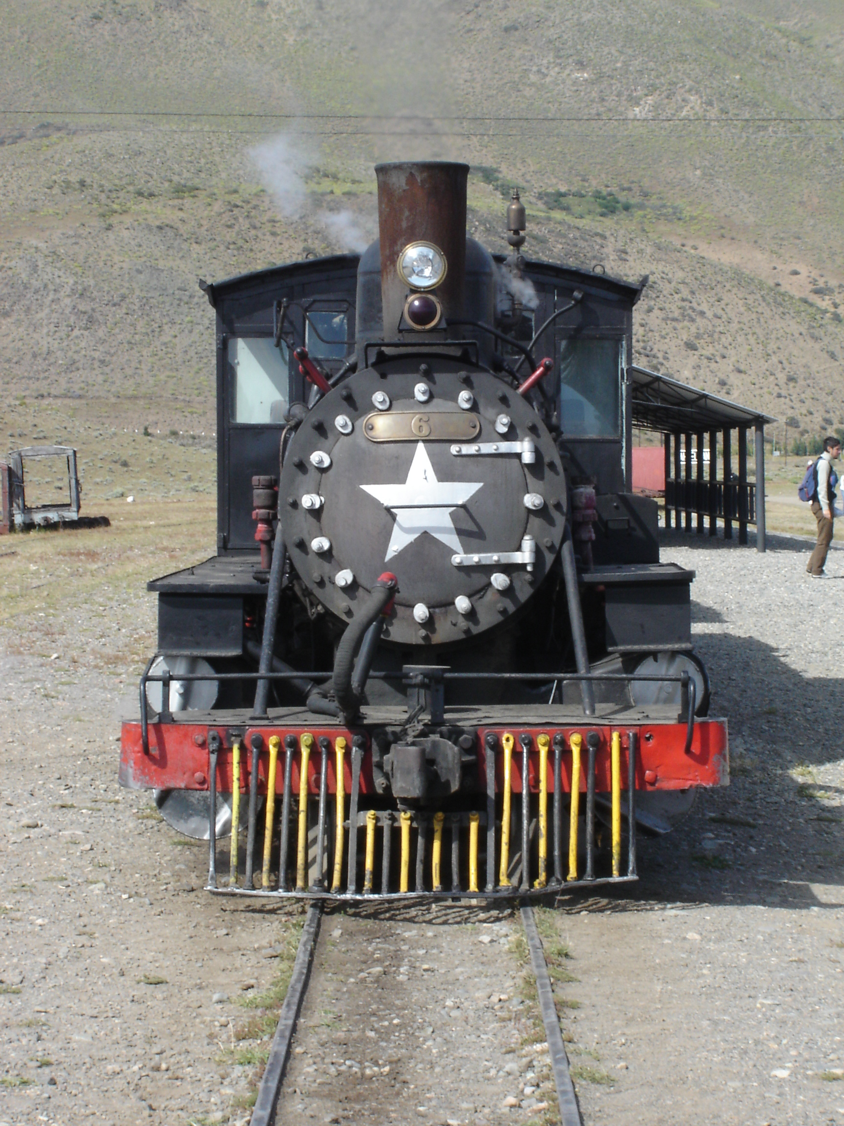 Old Patagonian Express "La Trochita", taken in NAHUEL PAN ESTACION FCGR, U9200XAH, Chubut, Argentina. NAHUEL PAN ESTACION FCGR, U9200XAH, Chubut, Argentina. ISO 3166-2: AR-U. FIPS 10-14: AR04. INDEC: 26. Decimal degrees latitude and longitude (DD): LAT -42.95 LONG -71.1833333. Degrees, minutes, seconds latitude and longitude (DMS): -425700 -711100